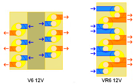 Schematic view of inlet (blue) and exhaust (red) ports, highlighting the differences between even port lengths on a conventional V6 engine, vs the unequal port lengths on the Volkswagen Group 12valve VR6 engine